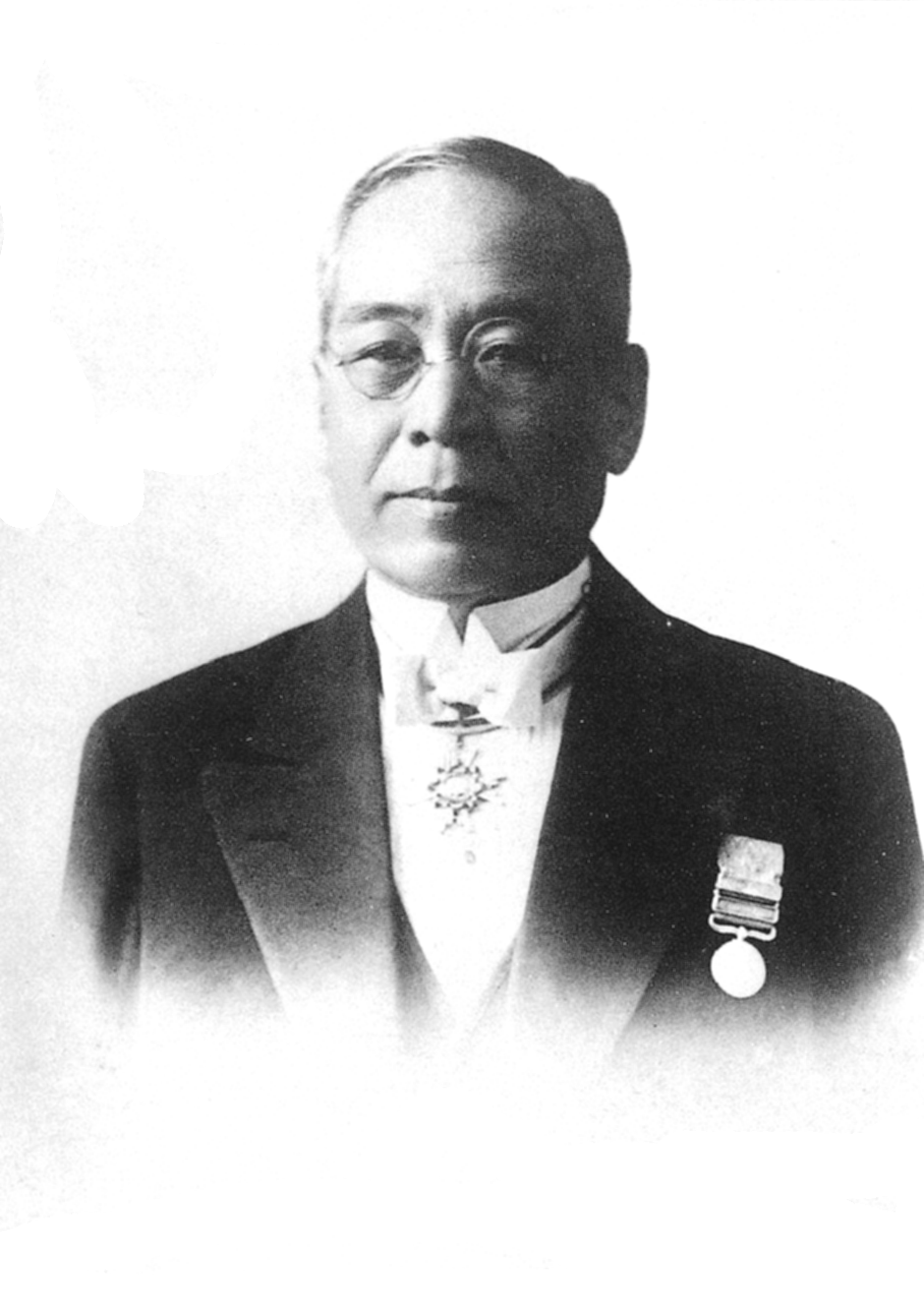 Portrait of Toyoda Sakichi (豊田佐吉, 1867 – 1930)